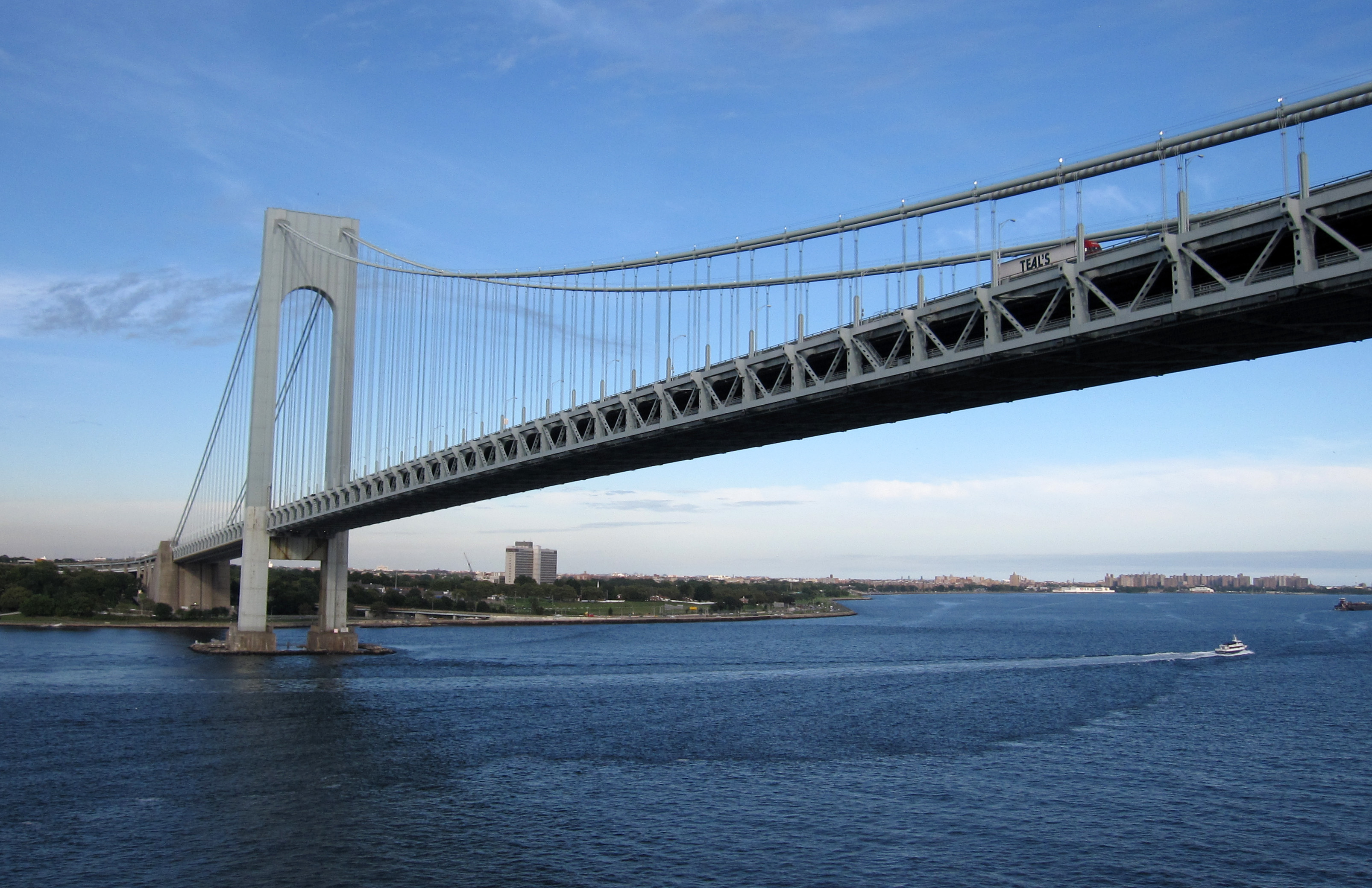 The Verrazano-Narrows Bridge connects the boroughs of Staten Island and Brooklyn in New York City, United States